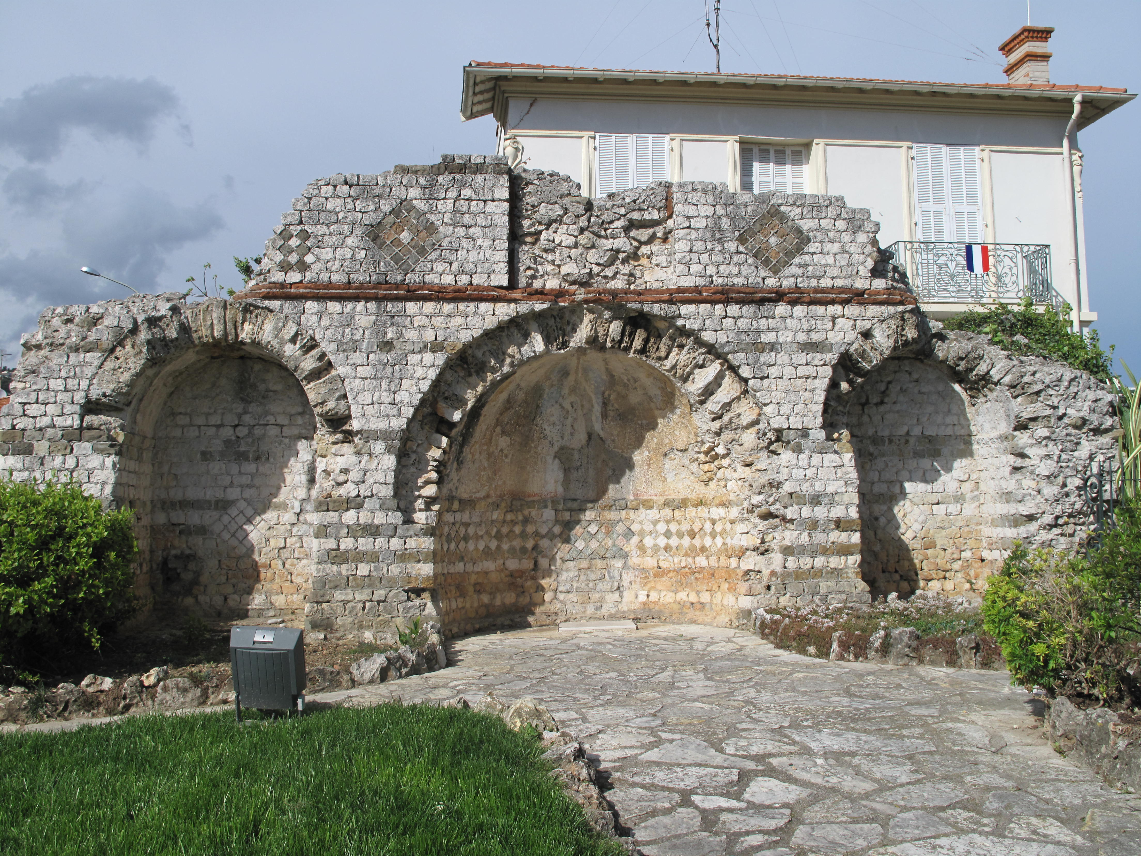 Mausoleum of Lumone in Roquebrune (Alpes-Maritimes, France). Near the ancient roman road Via Julia Augusta.